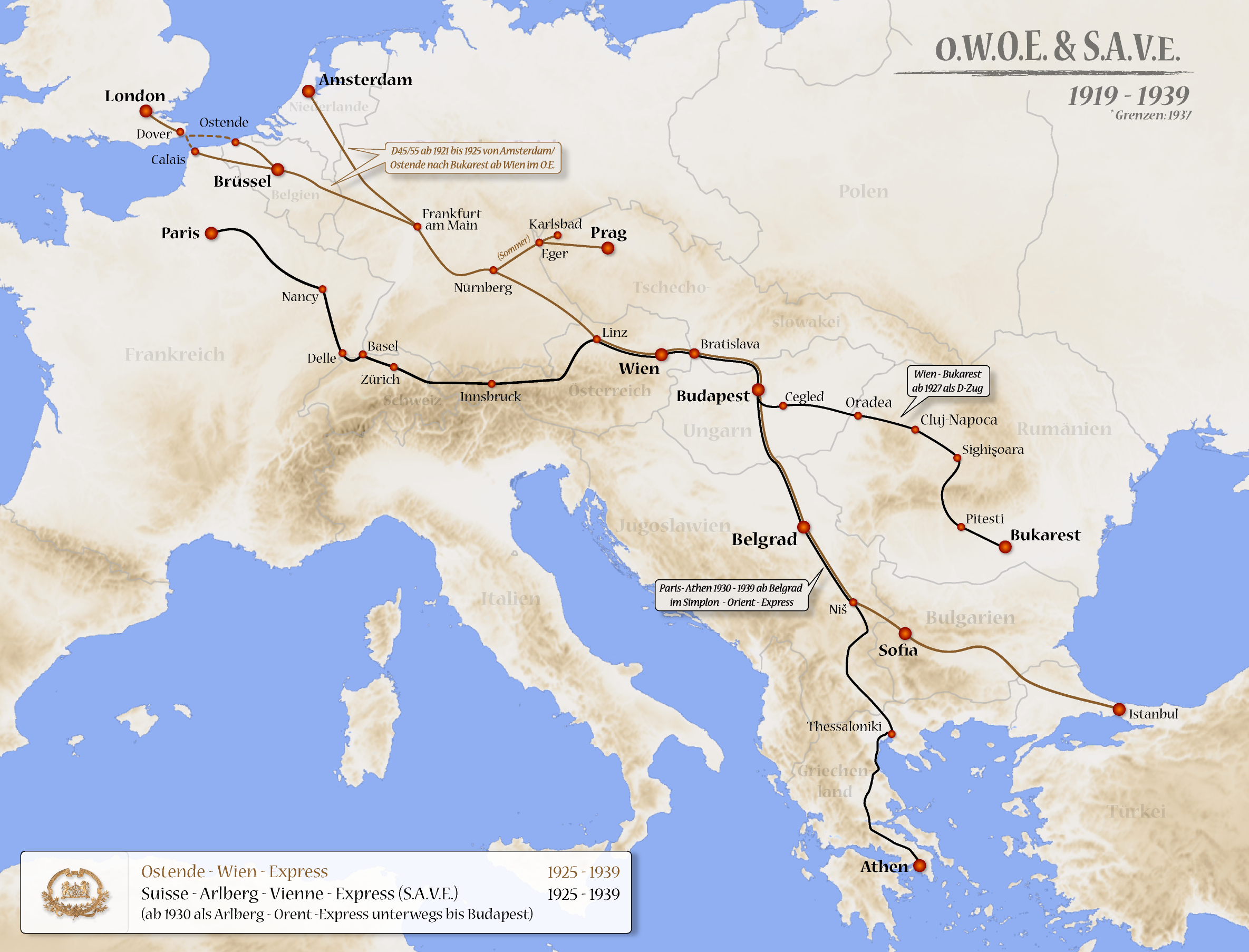 Route of the S.A.V.E. and the O.W.O.E. from 1919 to 1939